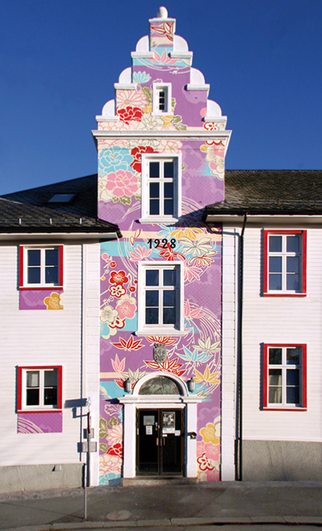 Flower Tower artproject by Michael Lin. Rogaland School of Art main entrance. Birkelandsgate 2, Stavanger, Norway. Stavanger2008 project.